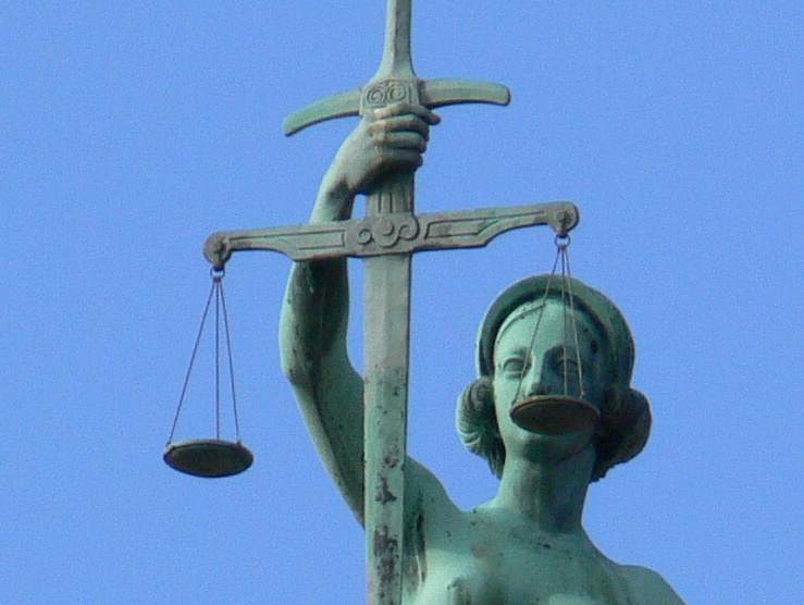 Conscience and law, detail from the Justicia sculpture on the court house in Bamberg, Bavaria, Germany